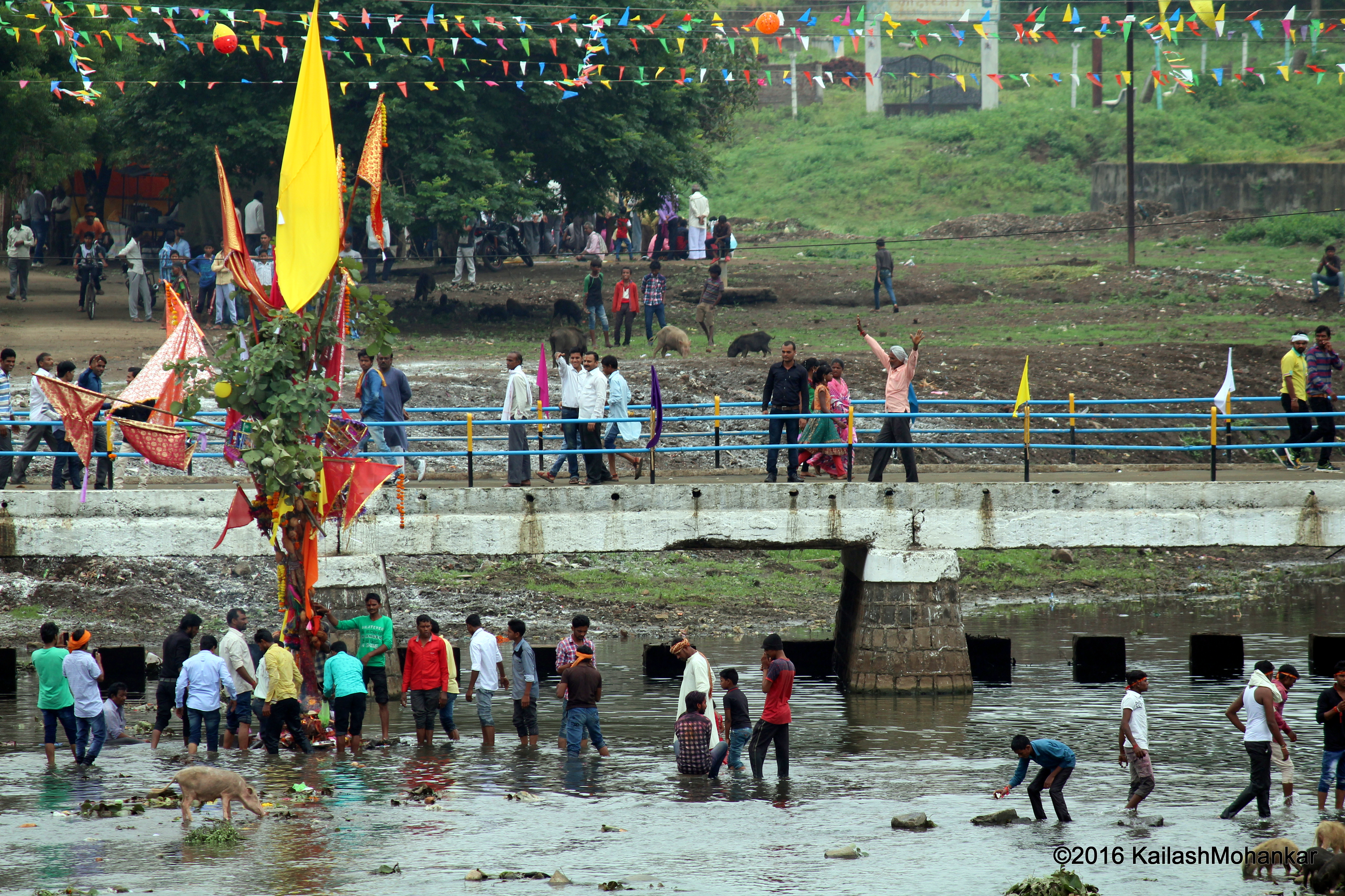 Gotmar Fair, Pandhurna People of Sawargaon and Pandhurna throw stones at each other during Gotmar Fair. (Got=Stone and Mar=Throwing)